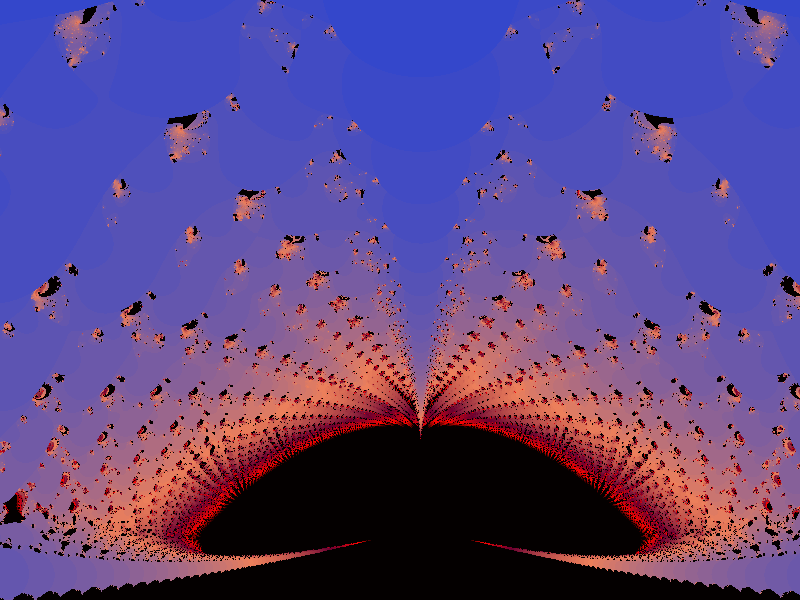 This is a fractal picture I made with a freeware fractal maker program called Kaos Rhei. Lot thx to program maker B. Ischo.